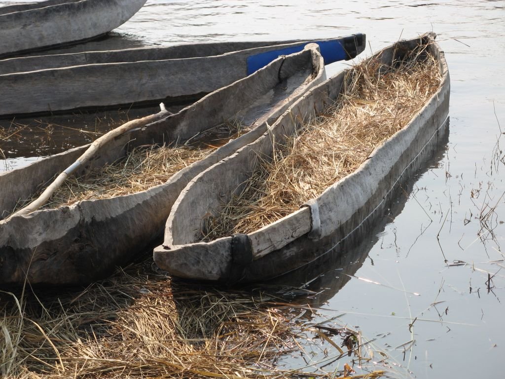 "Makoro" - dugout canoes in the Okavango Delta region, Botswana